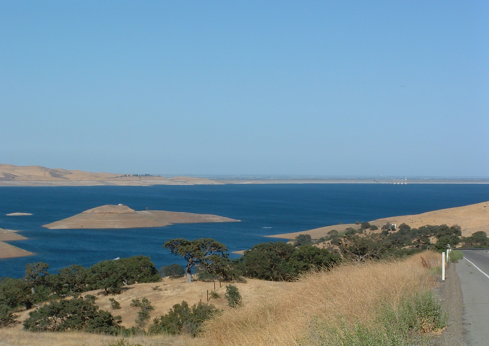 The San Luis Reservoir near Los Banos, in the eastern slopes of the Diablo Range of western Merced County, California. San Luis Dam and its intake structure can be seen in the distance. The reservoir is used to store water for the California State Water Project. In addtion, it is the upper reservoir in a pumped-storage hydroelectric system. It was taken by me on April 25, 2002. I give permission for the picture to be used with attribution under the GFDL and Creative Commons.